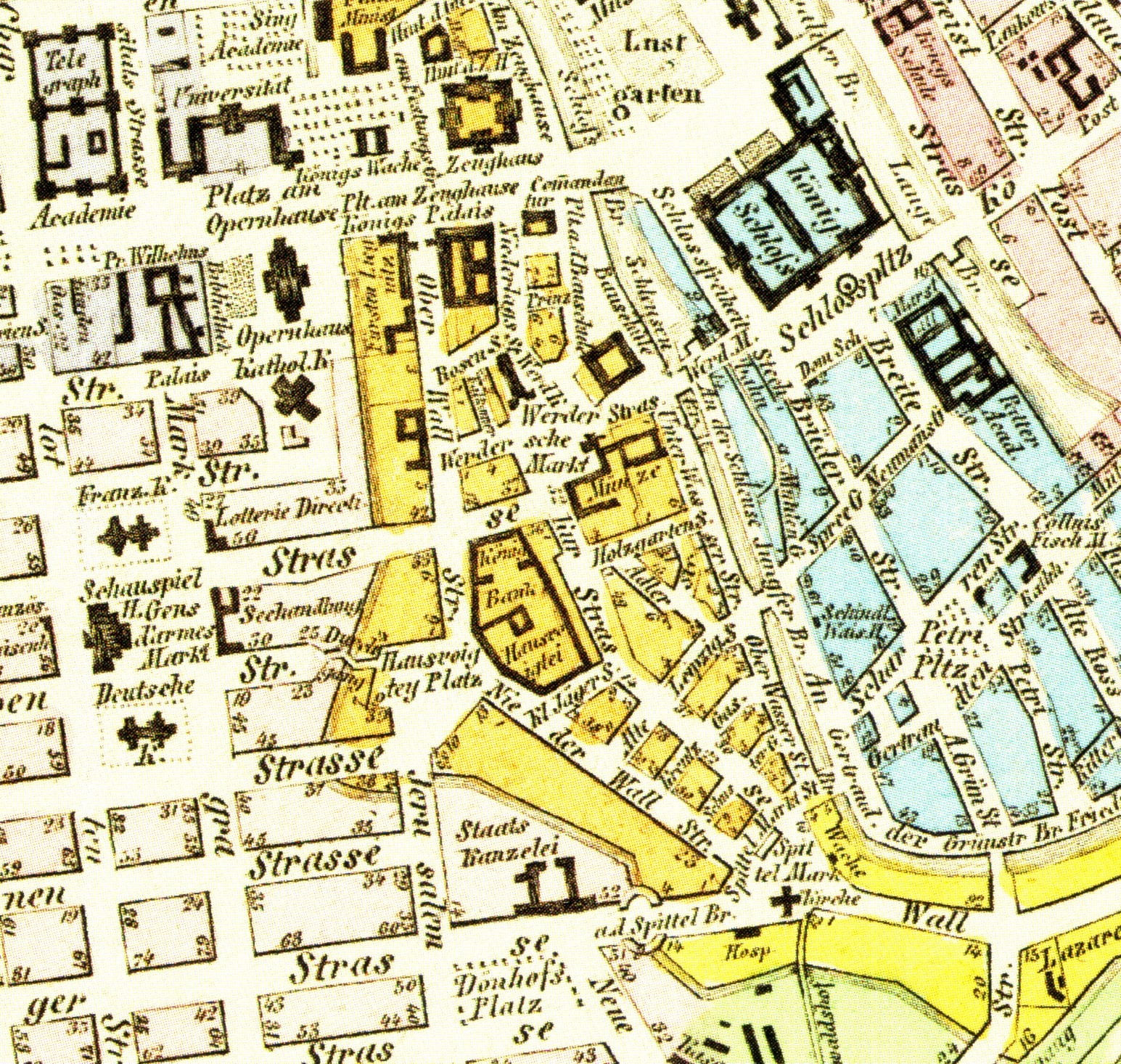 Map of Berlin from 1847, Detail